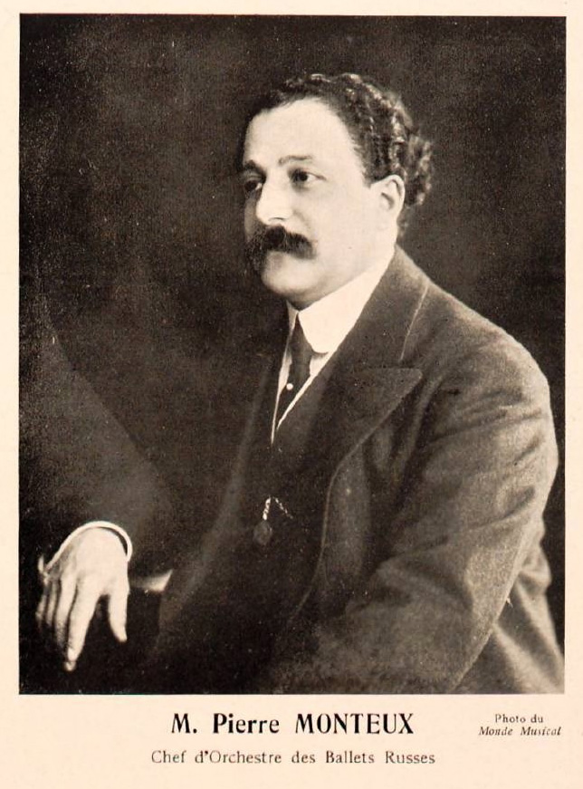 Pierre Monteux, conductor of the Ballets Russes (Photo by Le Monde Musical)